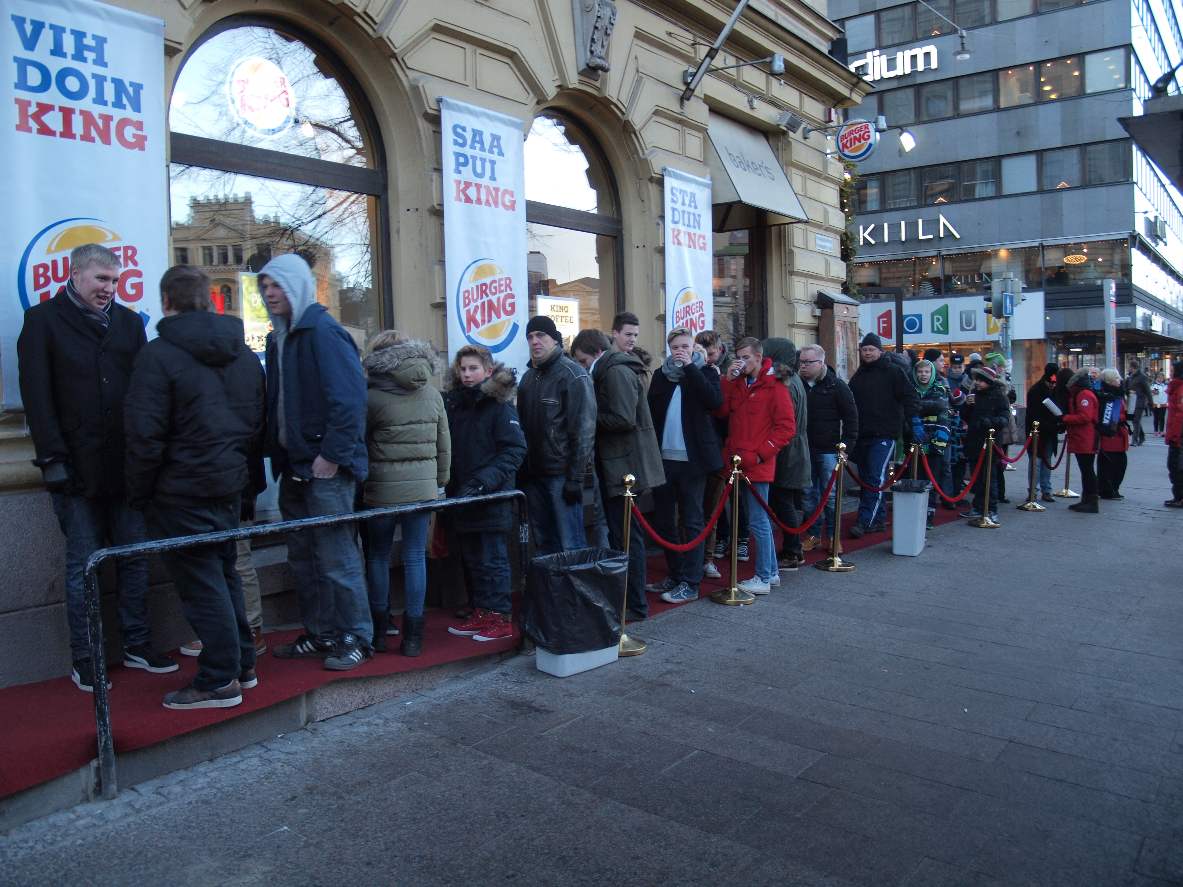 People queuing to the first Burger King restaurant in Finland for three decades, on Mannerheimintie in central Helsinki, Finland. This is the first time there has been a Burger King restaurant in Finland since the early 1980s, when there were Burger King restaurants in Finland for one year.